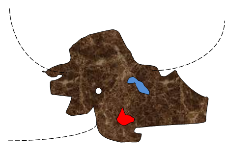 a drawing of a knobbly planet showing curved field lines